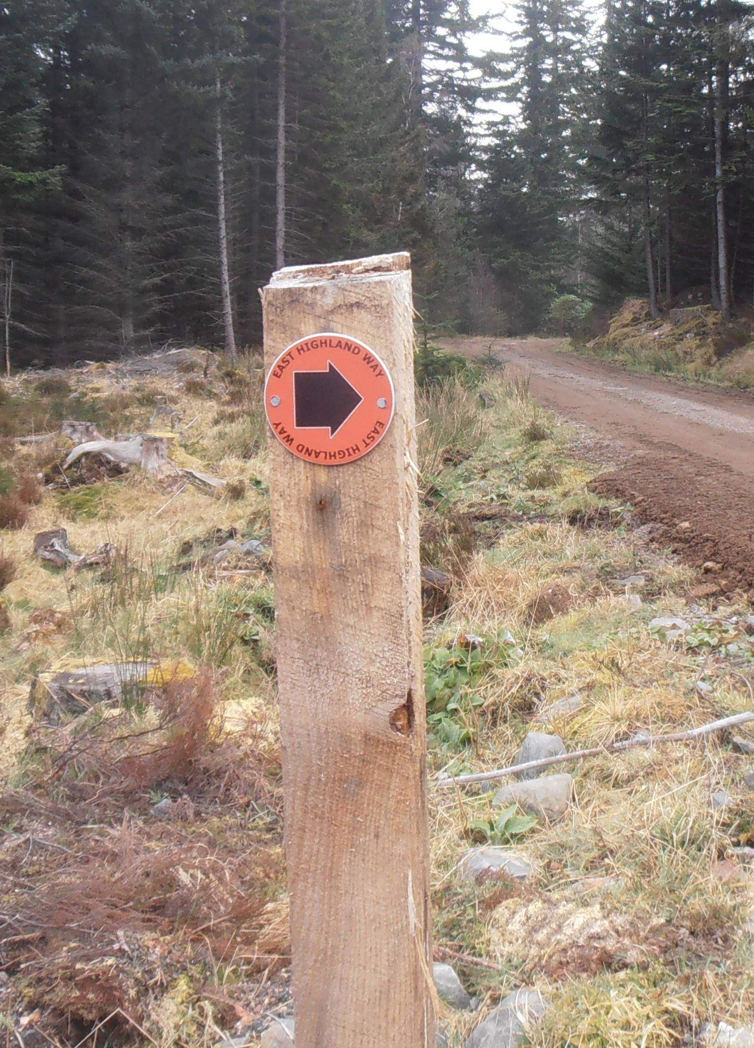 Marker post on the East Highland Way walking route, Ardverikie Estate, Loch Laggan.